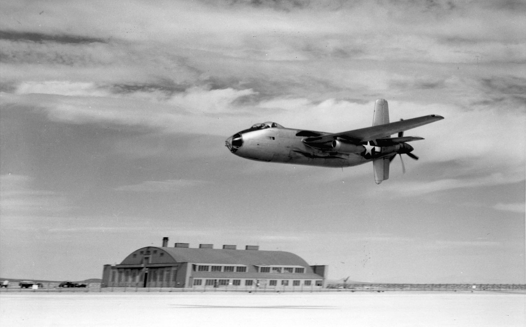 Douglas XB-42A during a low-level pass